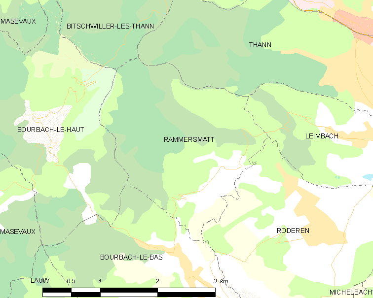 Map of French municipality